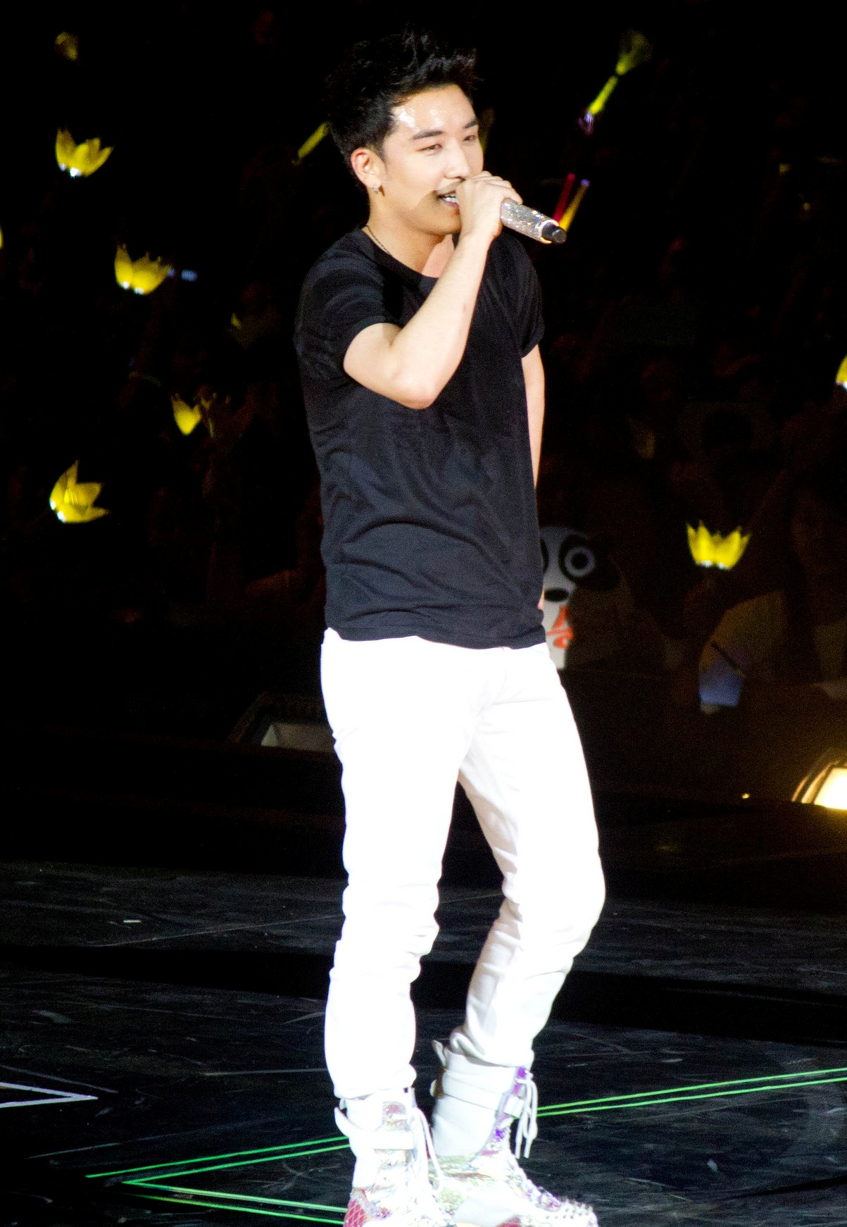 Seungri performing on Alive World tour